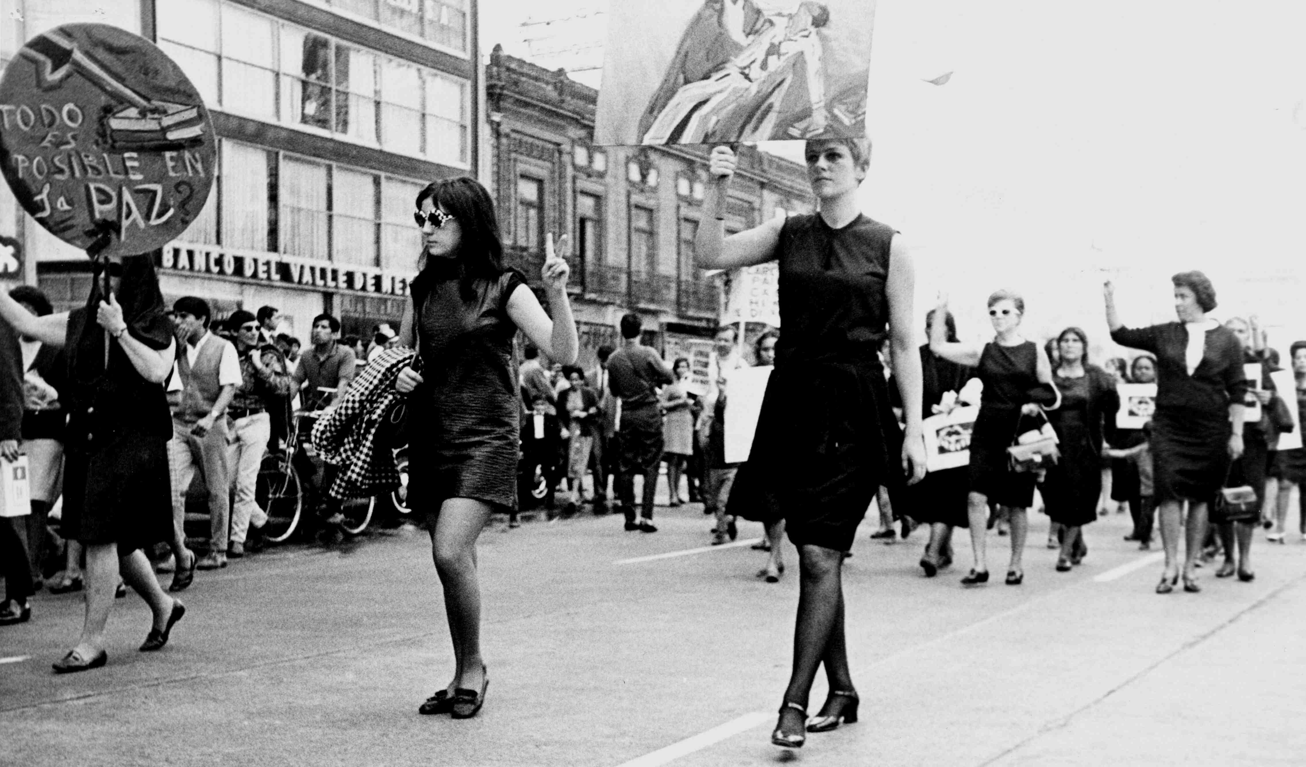 students demonstration in Mexico City